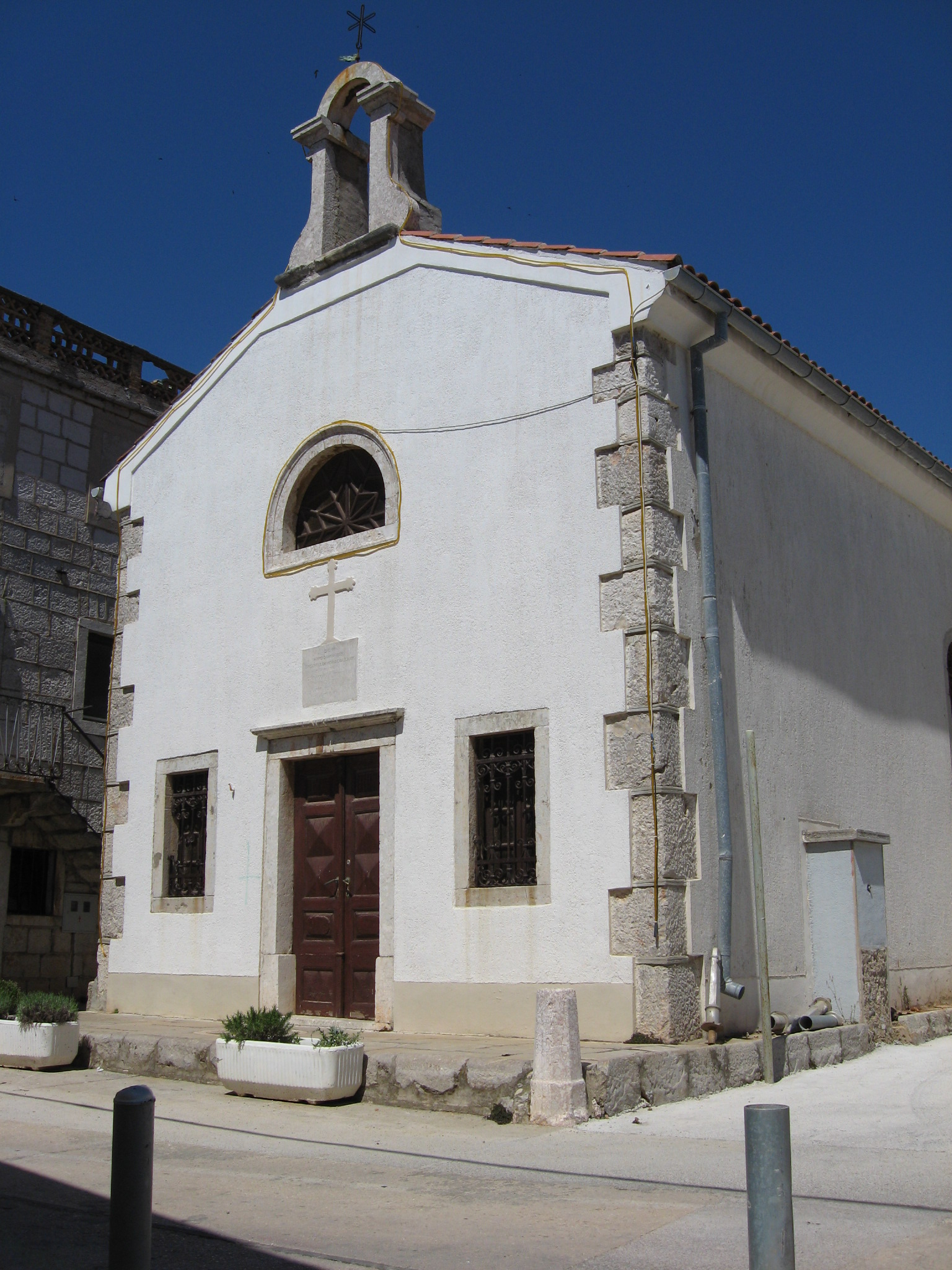 Church of St. Roch in Punat, Croatia.